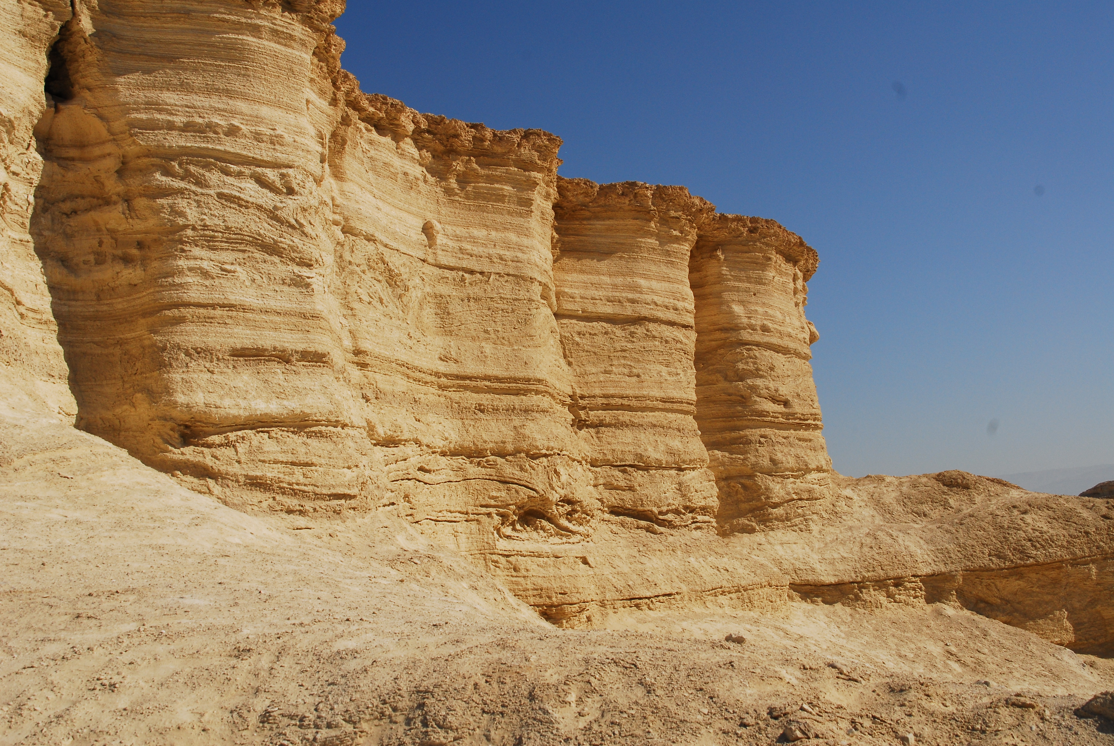 Geography of Israel